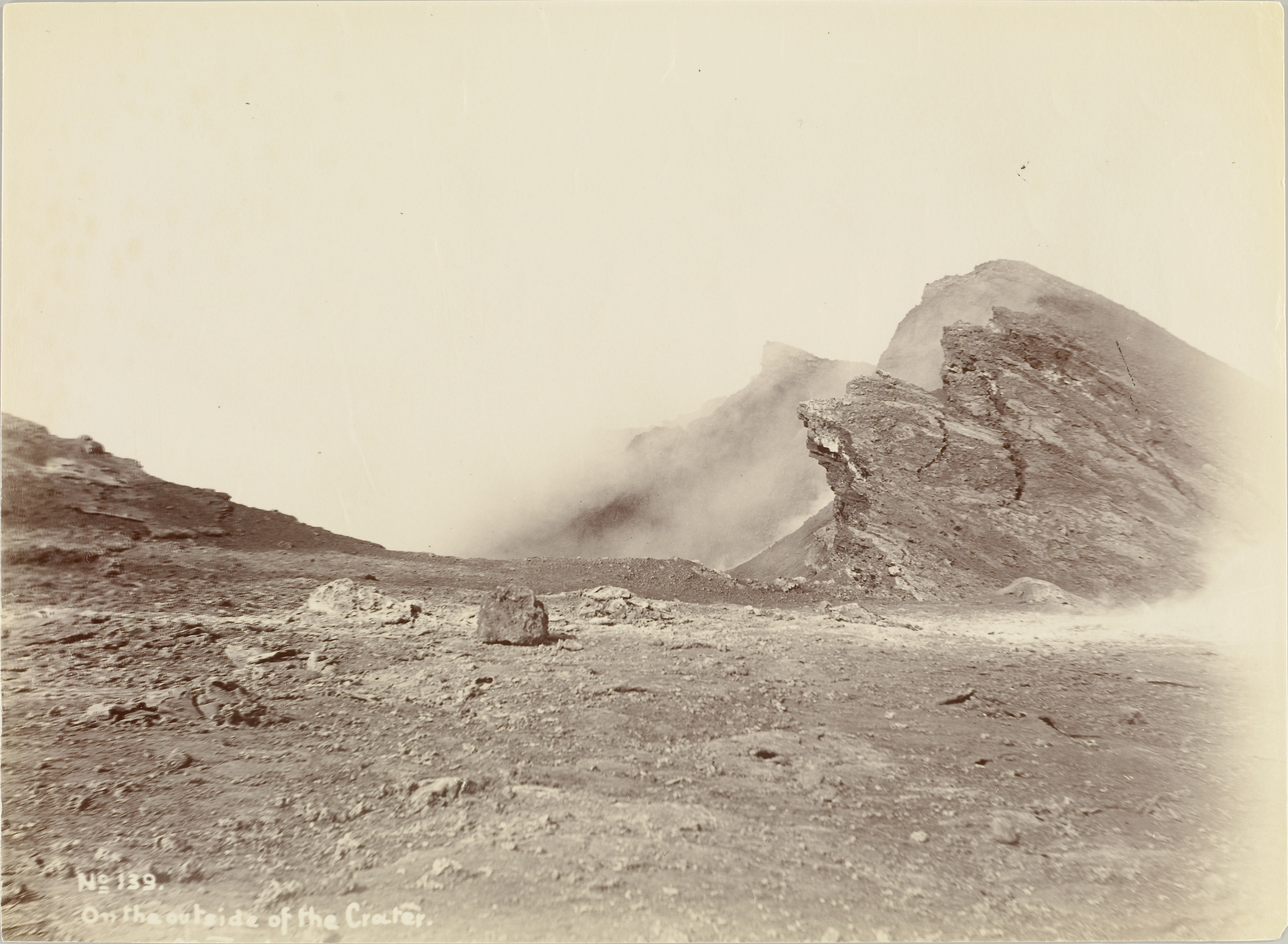 Samoa, Matavanu, on the outside of the crater